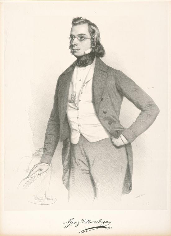 Georg Hellmesberger, Jr. by Eduard Kaiser. Taken from [1] PD due to age